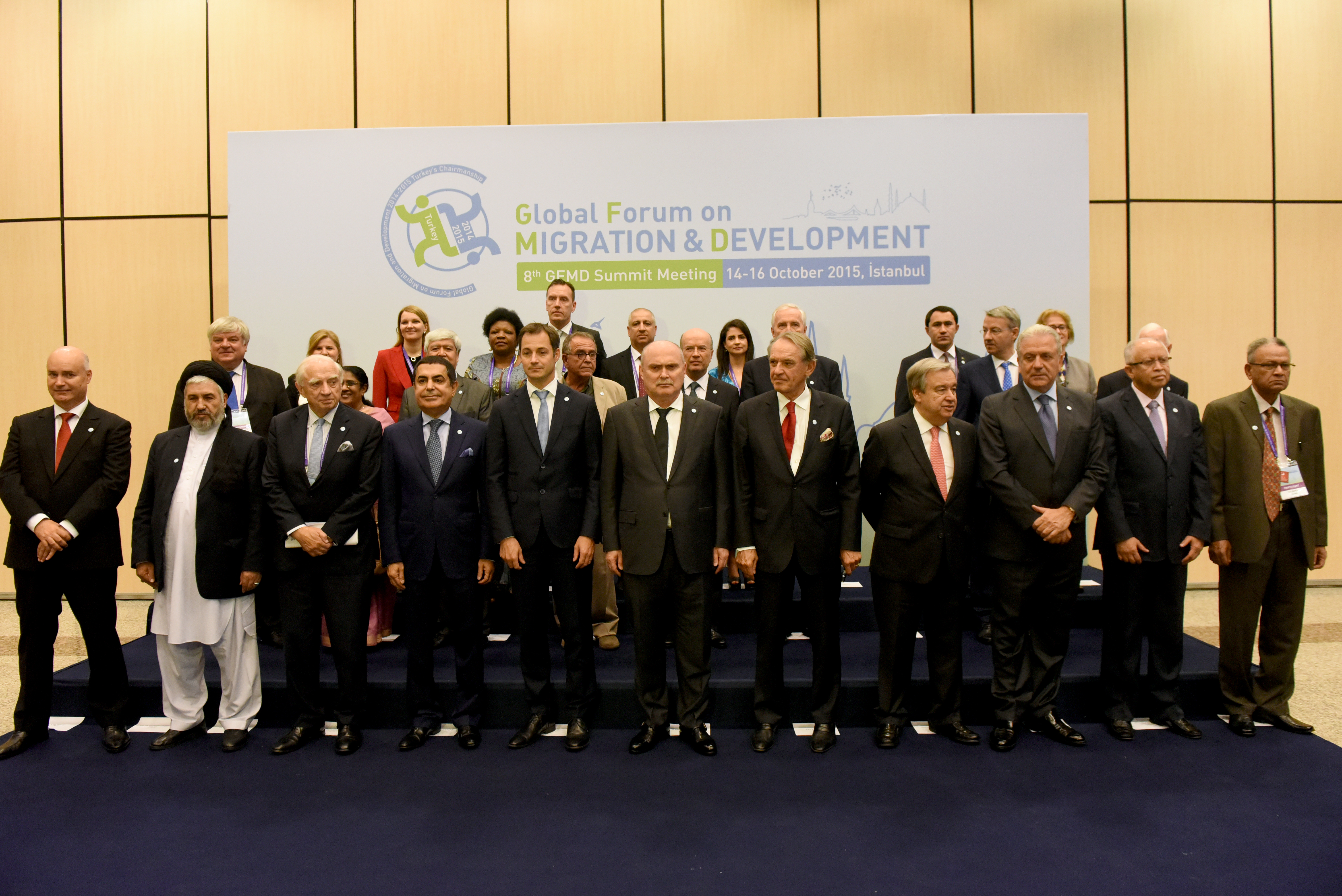 Delegations posing a family photo during the 8th GFMD opening session (Global Forum on Migration and Devolopment ) submit (from R-L) Economist Nurul Islam, Yemeni politician Reyad Yassin Abdullah, European Commissioner for Migration, Home Affairs and Citizenship Dimitris Avramopoulos, United Nations (UN) High Commissioner for Refugees, Antonio Guterres, Deputy Secretary-General of the United Nations Jan Eliasson (R), Turkish Foreign Minister Feridun Sinirlioglu (L), Belgian politician Alexander De Croo, President of the United Nations General Assembly Nassir Abdülaziz Al Nasser, Chairman of Goldman Sachs International Peter Sutherland, Seyid Hussein Alimi and Moroccon politician Anis Birou pose for a family picture during Global Forum on Migration and Development Summit Meeting on October 14, 2015 in Istanbul, Turkey.